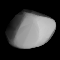 3D convex shape model of 1083 Salvia, computed using light curve inversion techniques. J. Hanuš, J. Ďurech, M. Brož, B. D. Warner (June 2011). "A study of asteroid pole-latitude distribution based on an extended set of shape models derived by the lightcurve inversion method". Astronomy and Astrophysics 530: A134. ISSN 0004-6361. arXiv